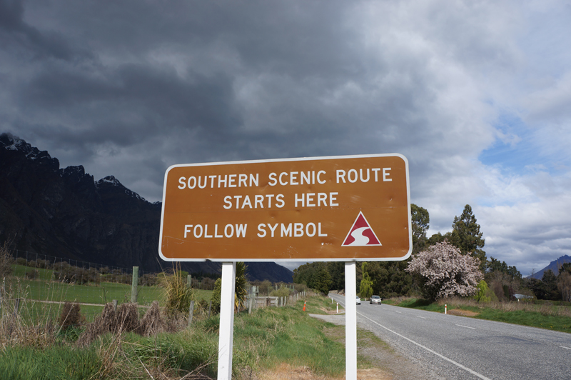 southern scenic route start sign new zealand